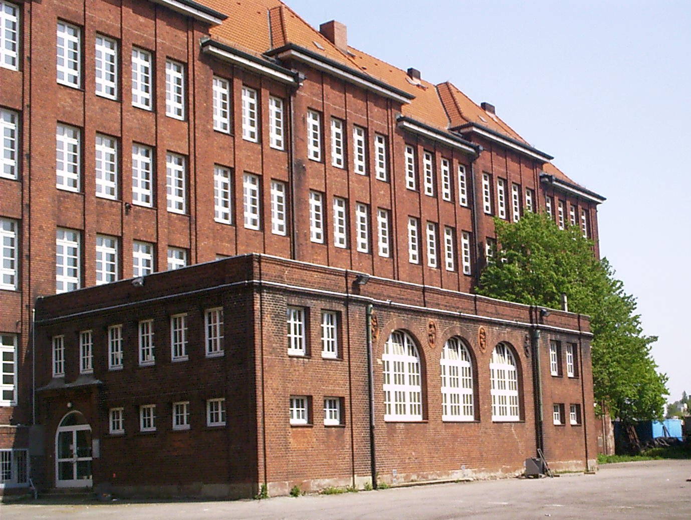 The Bullenhuser Damm school in Hamburg-Rothenburgsort, Germany.